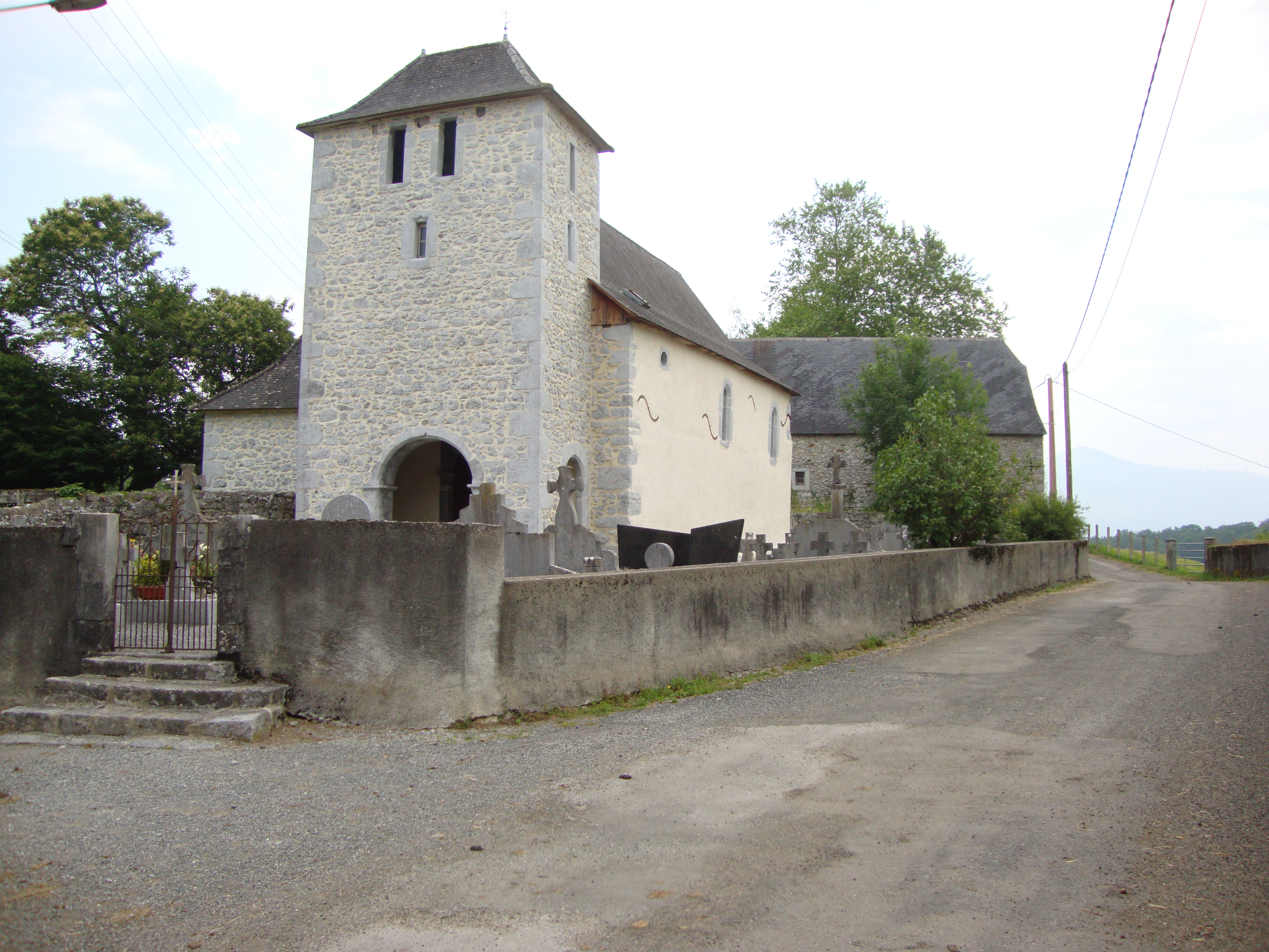 Suhare (Ossas-Suhare, Pyr-Atl, Fr) church. In the churchyard a few discoidal steles are visible